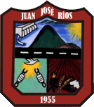 Seal of Juan José Ríos